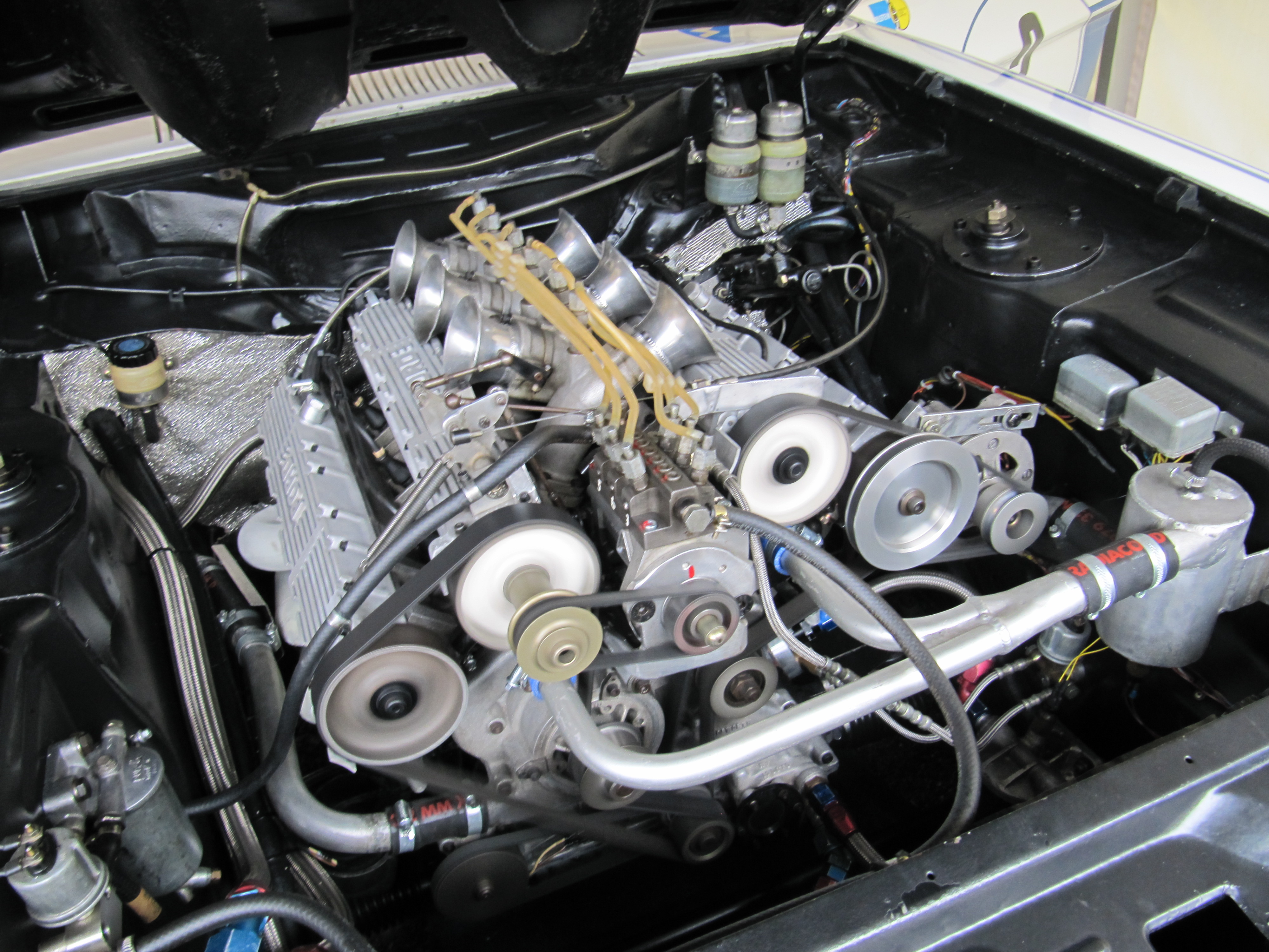 Ford Capri Engine DRM 1974, Cosworth V6 with 3.4 Liter, 450 HP an Kugelfischer Injection